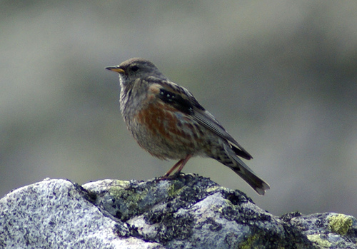 Alpine Accentor, French Pyrenees, June 2007.